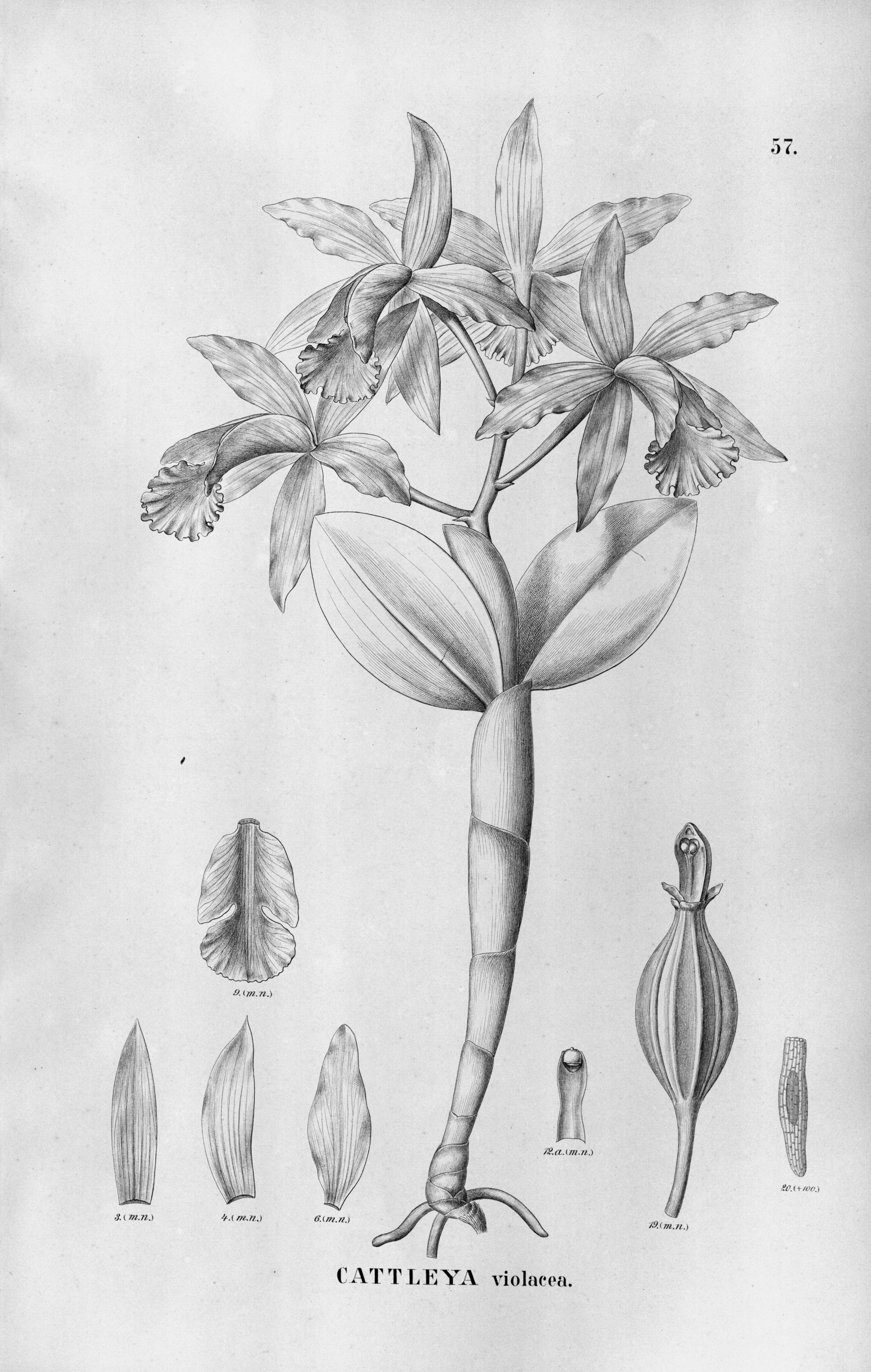 Illustration of Cattleya violacea